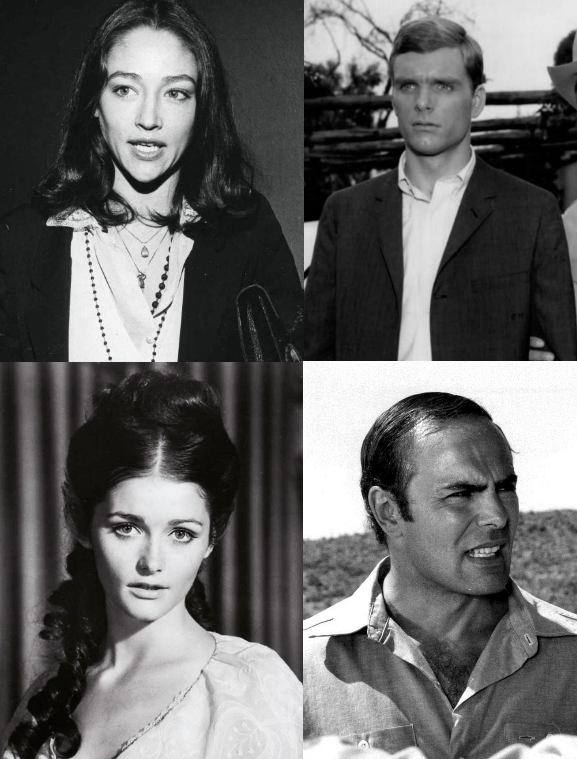 Cast of Black Christmas (1974)